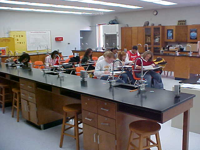 Chemistry laboratory at Magna Vista High School in Henry County, Virginia.